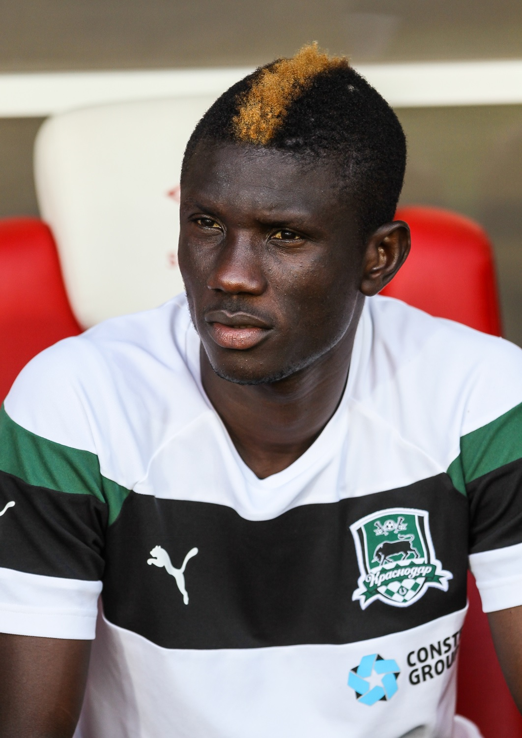 Kouassi Eboue with FC Krasnodar before the game against FC Spartak Moscow.